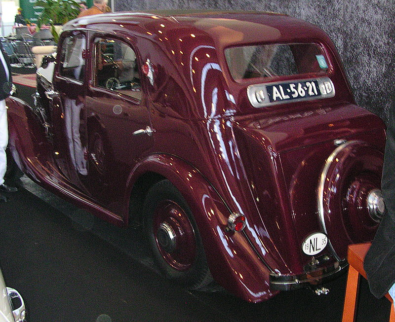 Essen Techno-Classica 2007, La Licorne rivoli 415 series L3